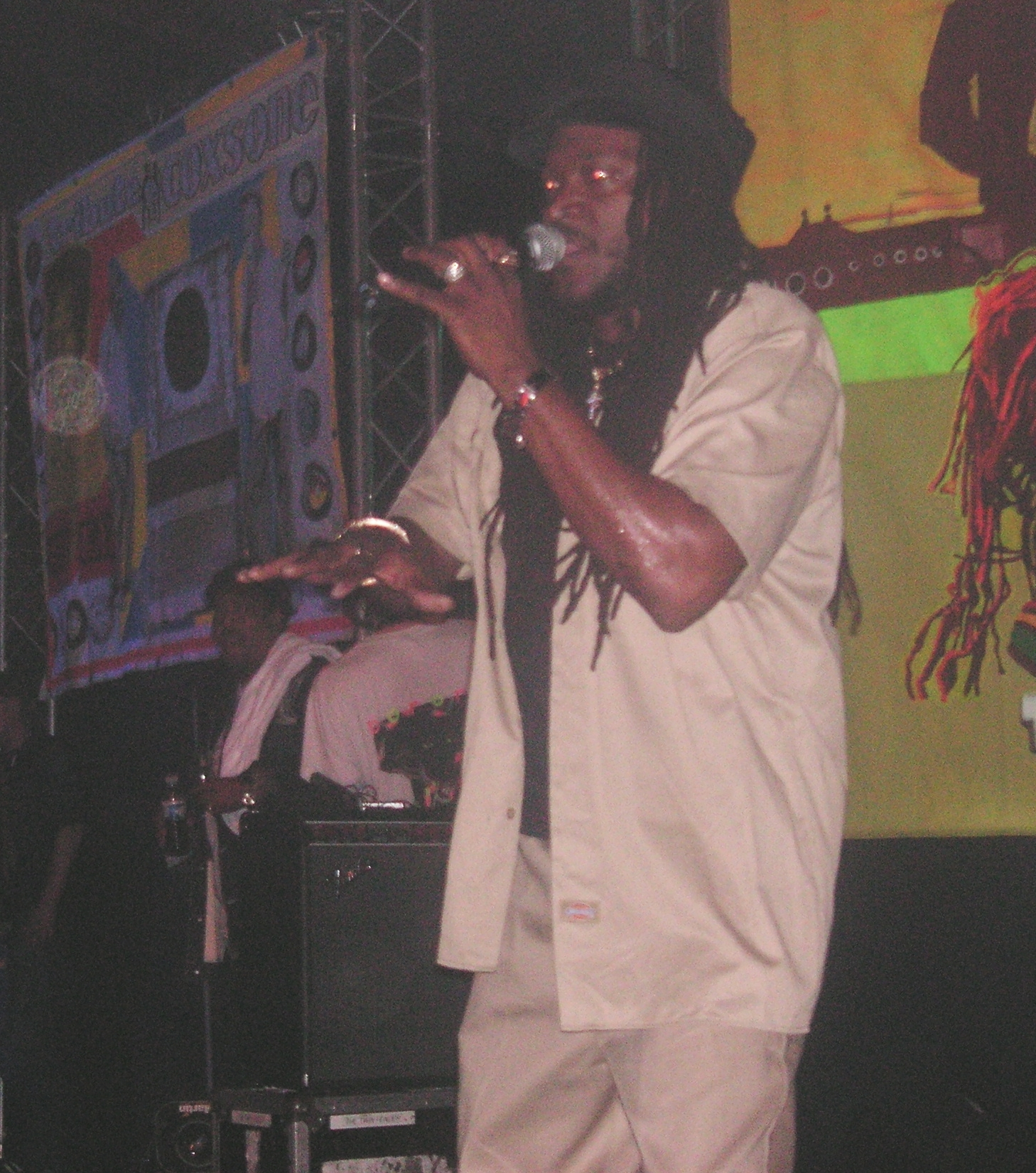 Lone Ranger (Jamaican reggae singer) in concert in Chartres (France) on October 21, 2006